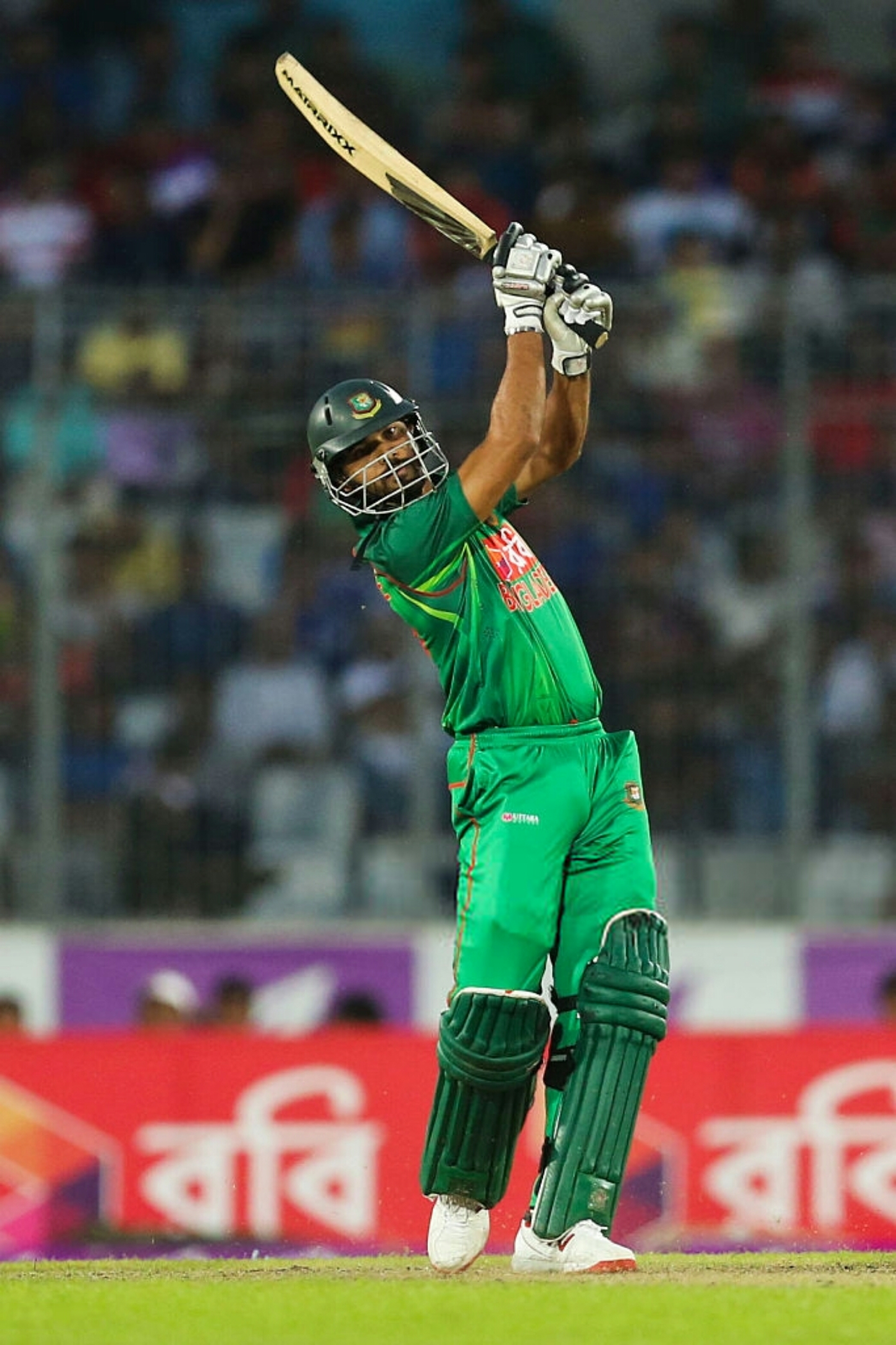 Bangladeshs captain Mashrafe Mortaza plays a shot during the second one-day international cricket match against England in Dhaka, Bangladesh, Sunday, Oct. 9, 2016. (Photo by Ahmed Salahuddin/NurPhoto via Getty Images)